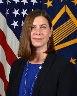 Elissa Slotkin